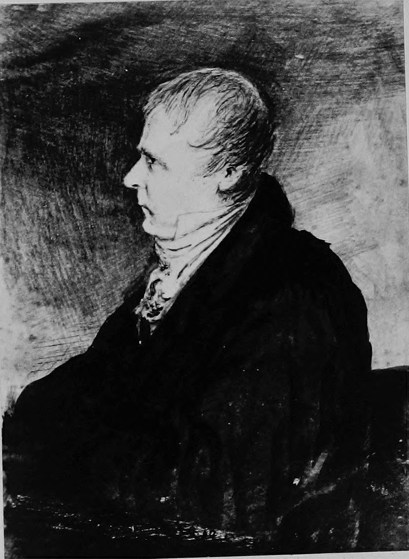 Drawing of Sir Walter Scott, Bart. of Abbotsford by Robert Scott Moncrieff